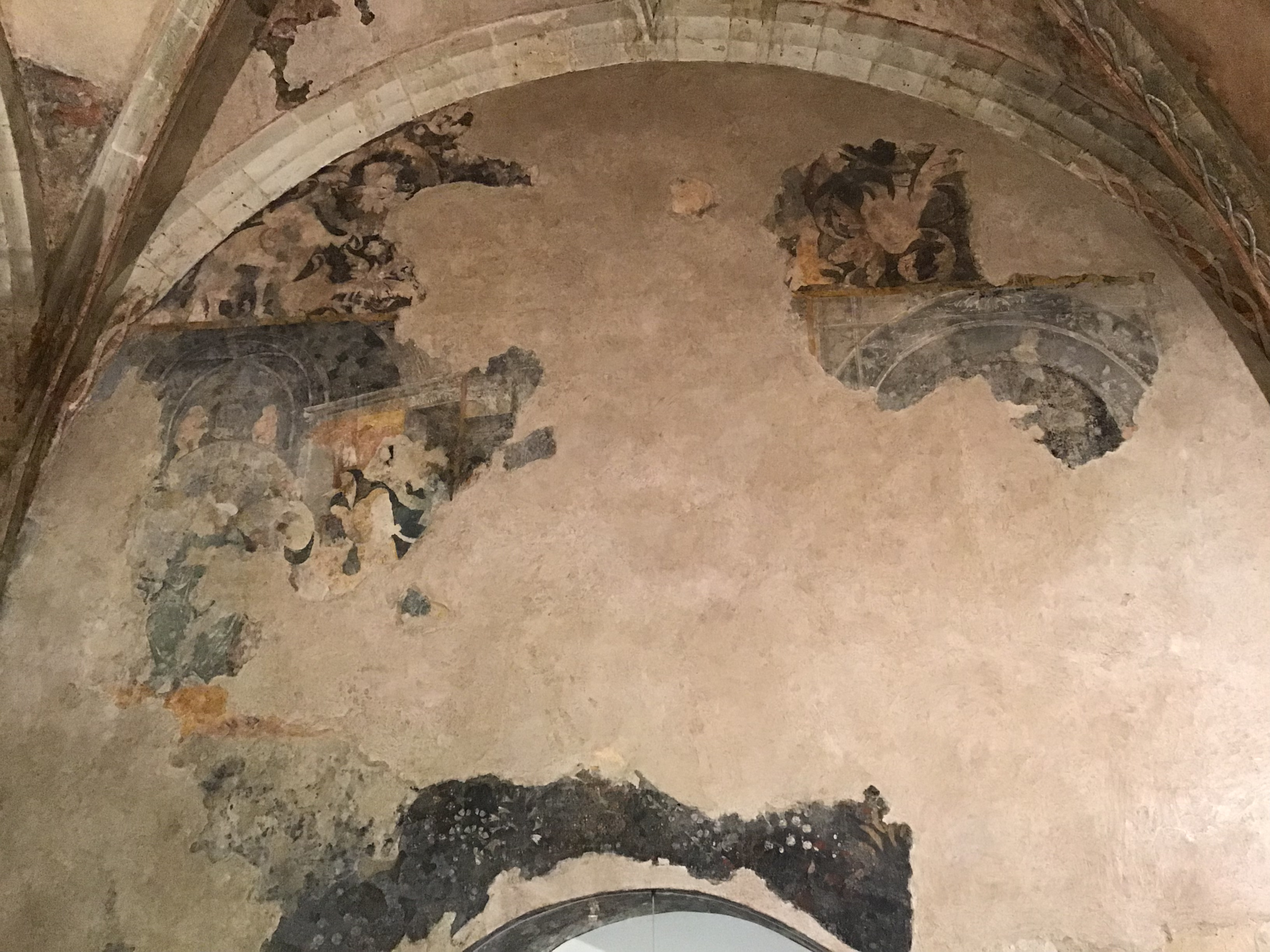 Remaining fresco in the Lectoure cathedral